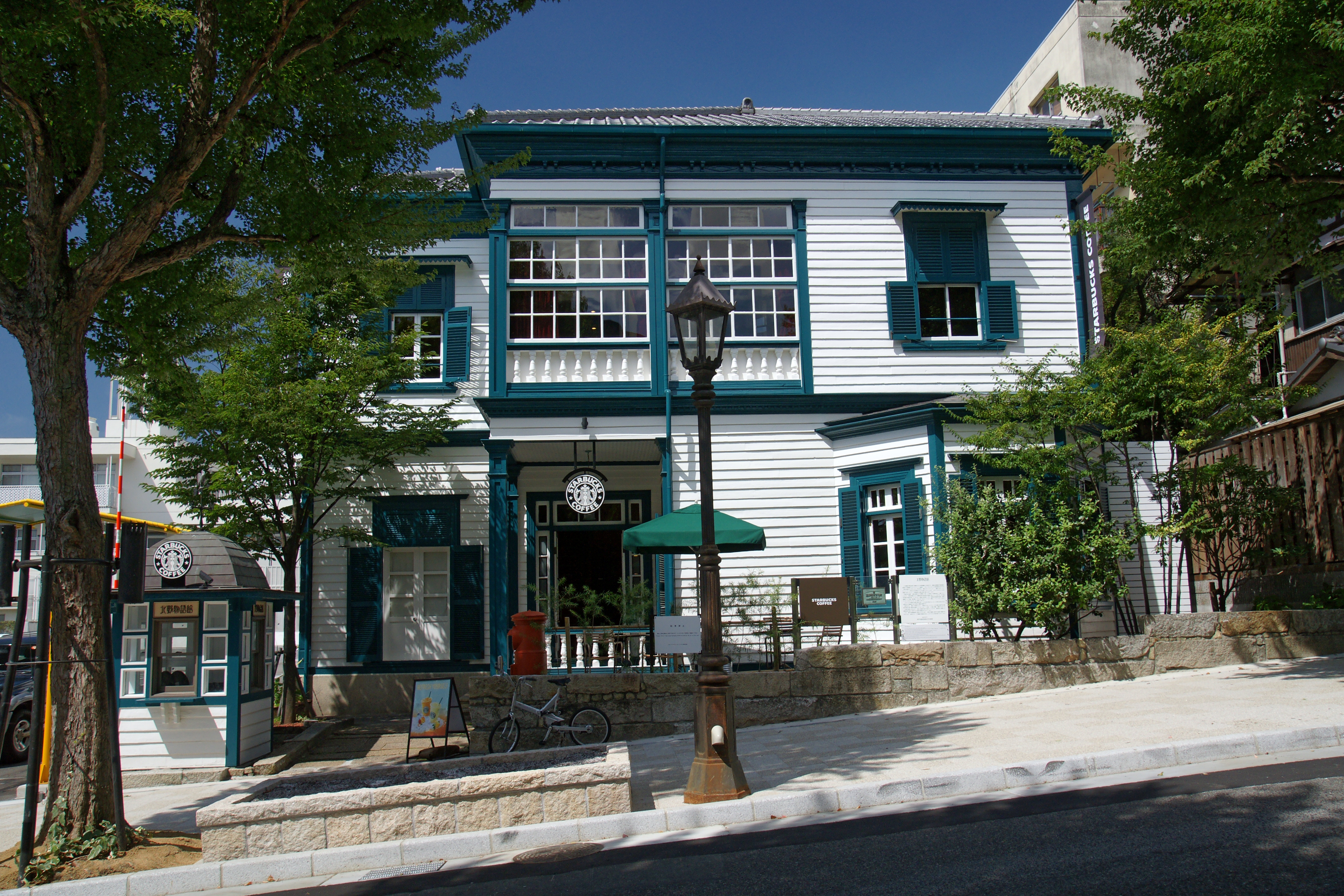 The Old Freundlieb's Residence in Kobe, Hyogo prefecture, Japan